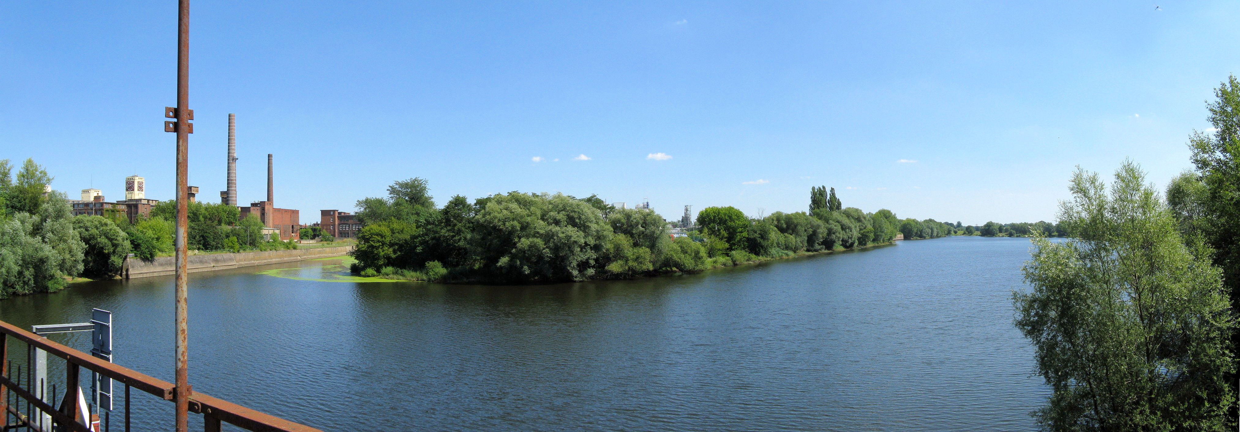 Confluence of rivers Stepenitz (left) and Karthane (right) in Wittenberge, disctrict Prignitz, Brandenburg, Germany